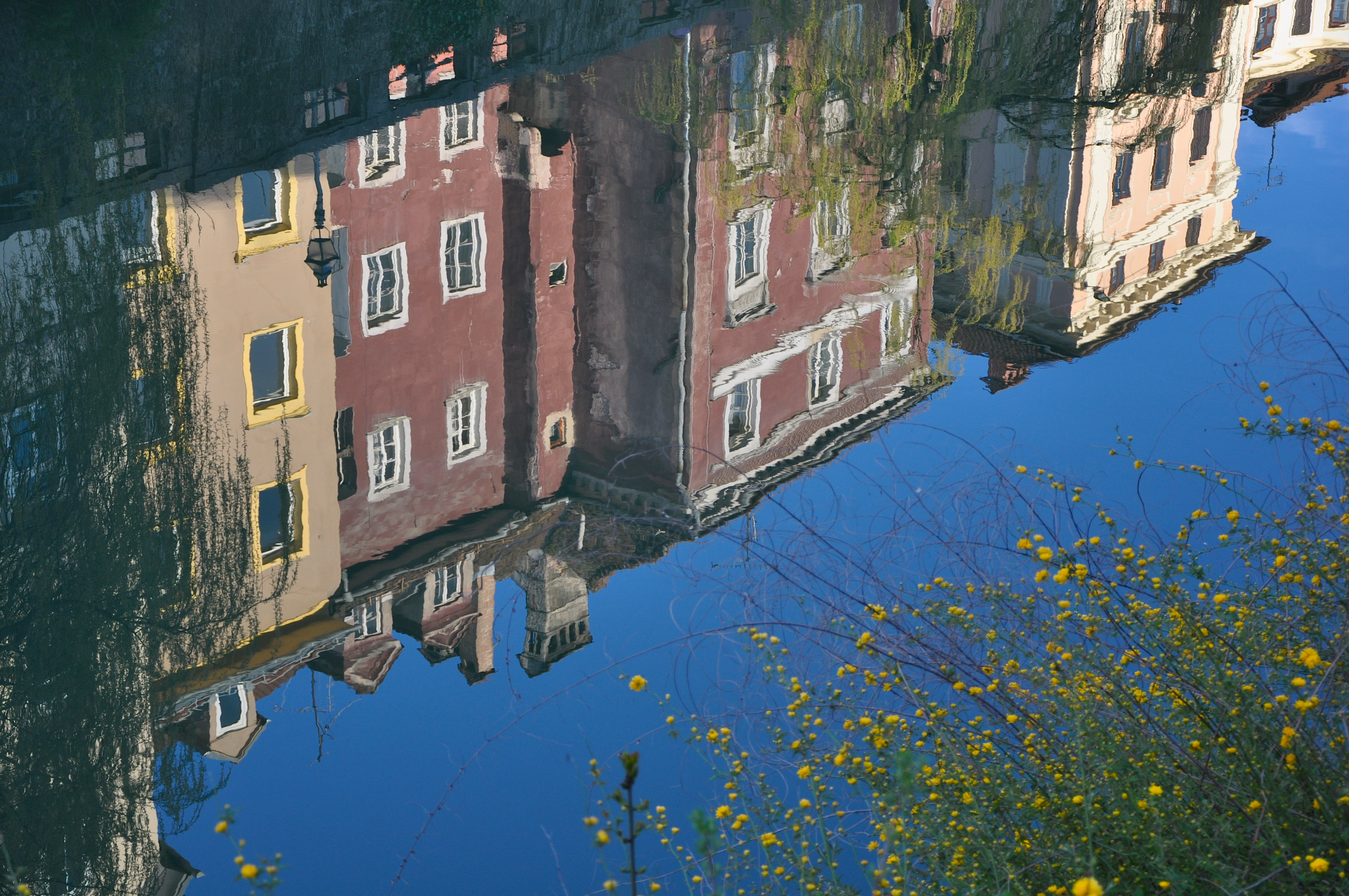 Ljubljanica river with reflexion of Ljubljana's houses